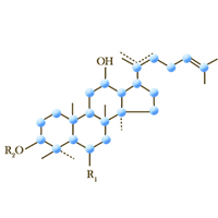 The molecular structure of ginsenoside Rh2